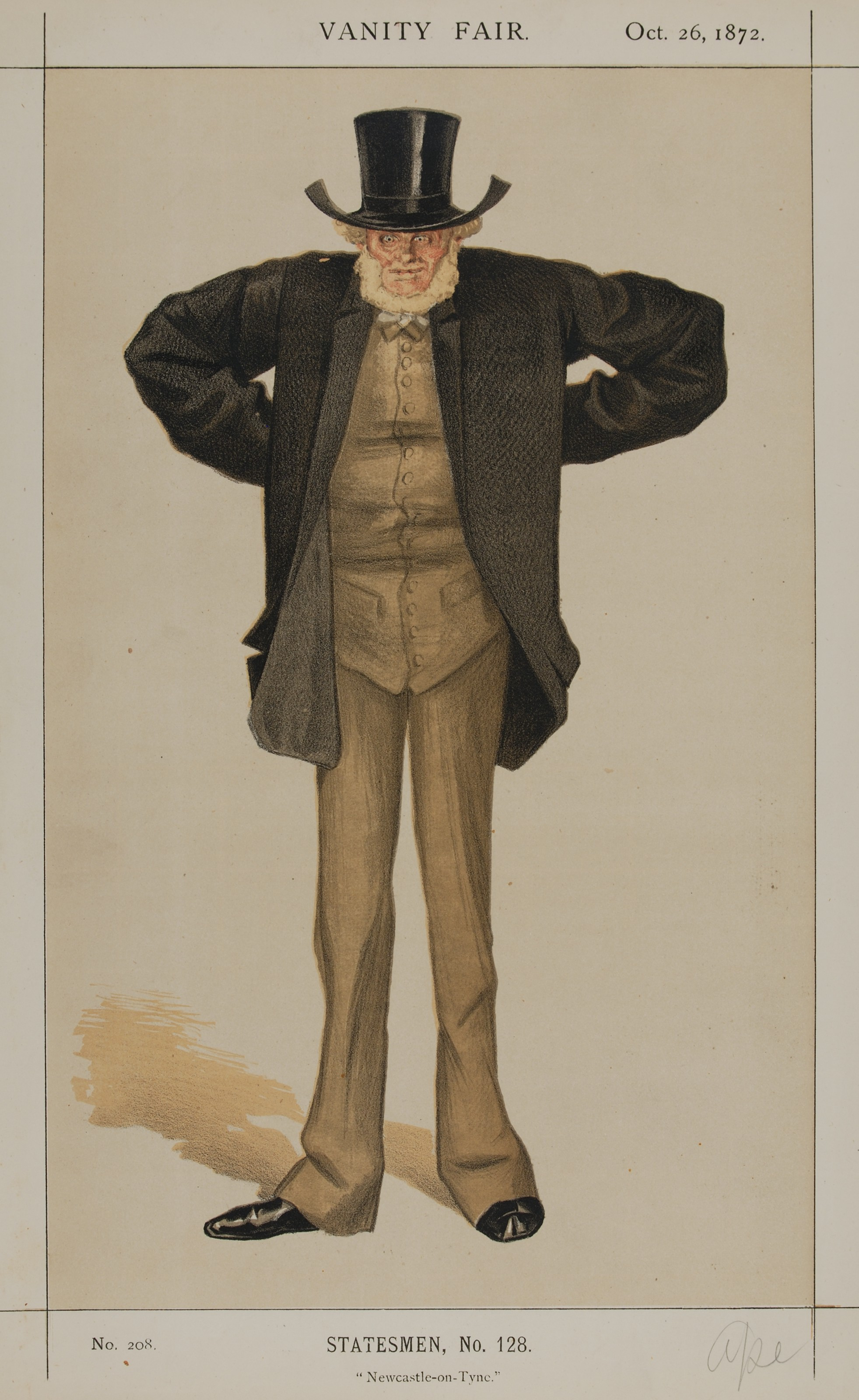 Statesmen No.128: Caricature of Sir Joseph Cowen, M.P. (1800-1873). Caption reads: "Newcastle-on-Tyne"